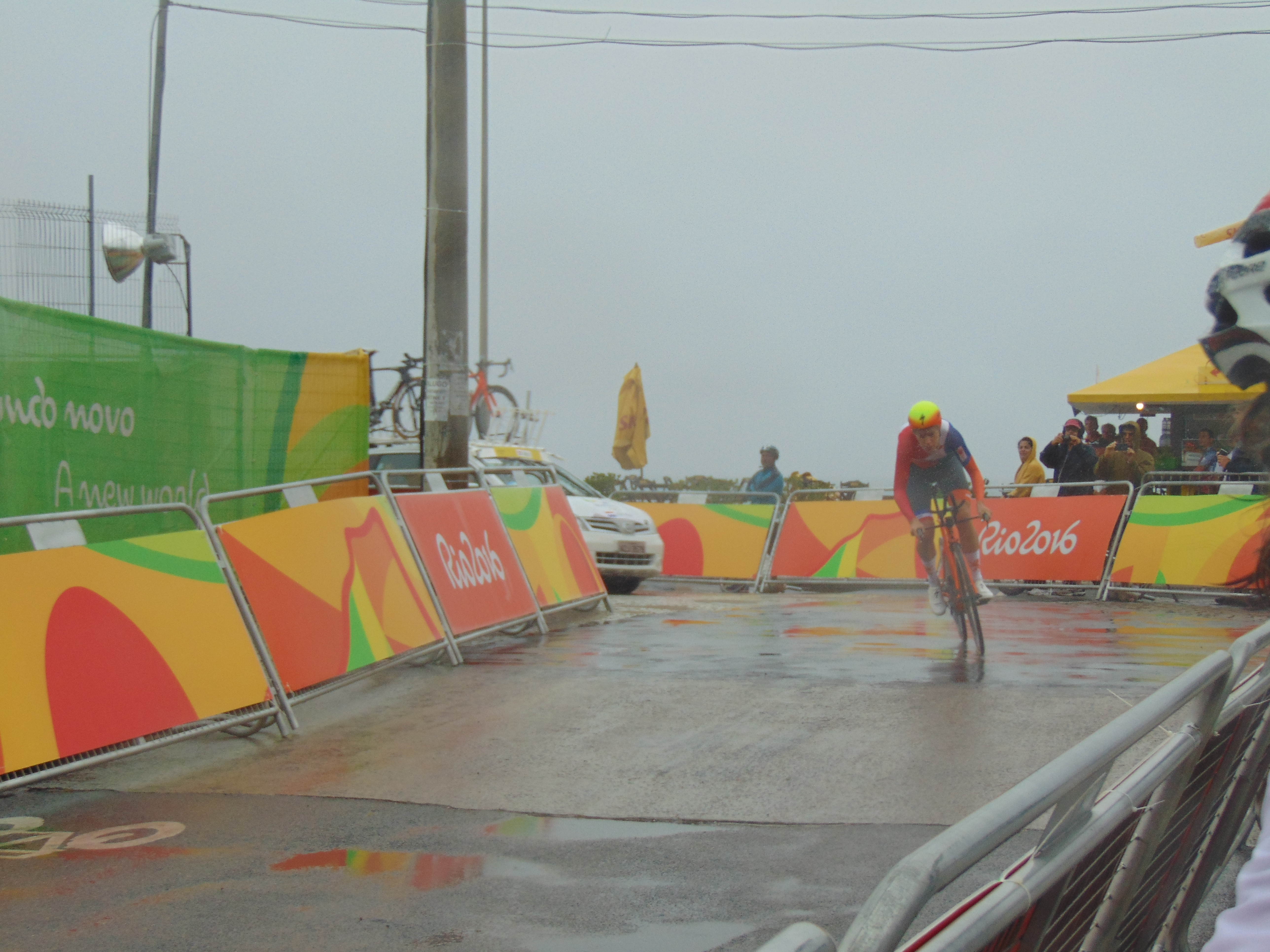 Rio 2016 - Women's time trial 10 August (CR003)